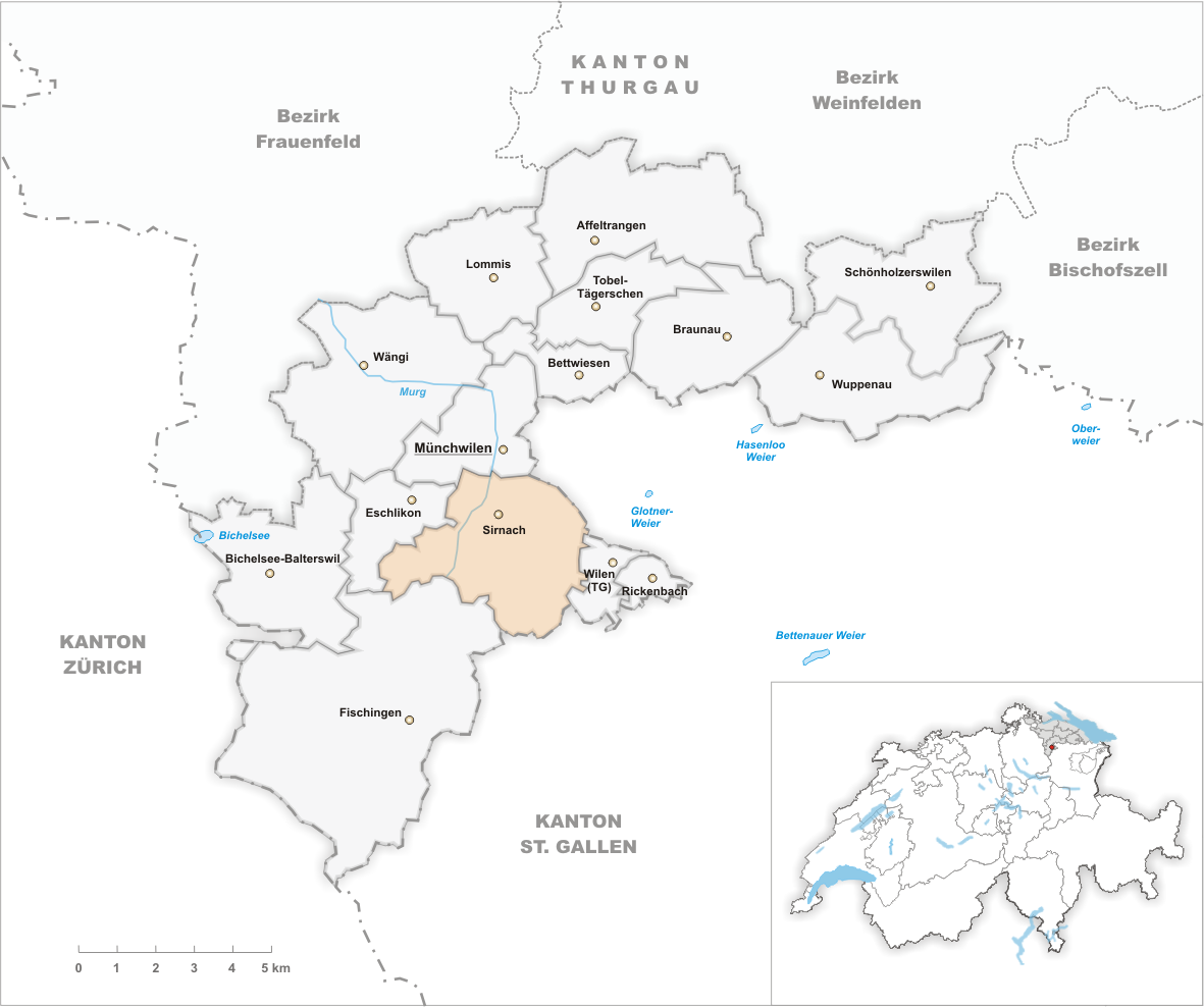 Municipality Sirnach